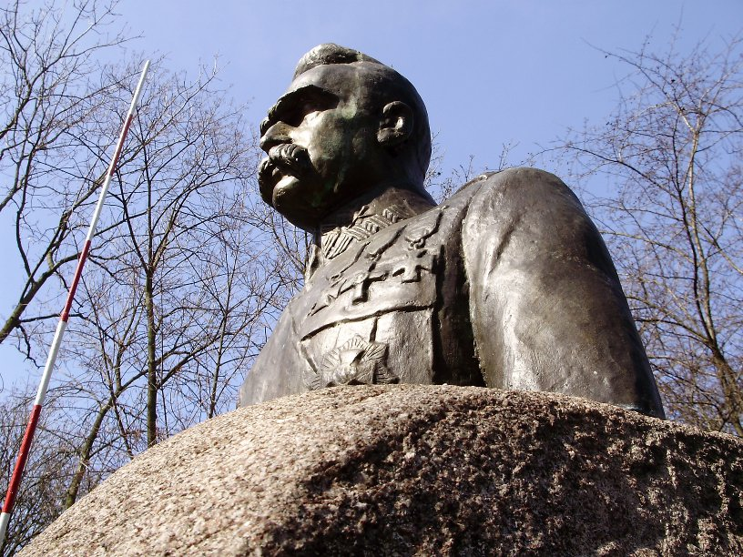 Monument of Marshall Józef Piłsudski in Turek, sculptured by Józef Gosławski.